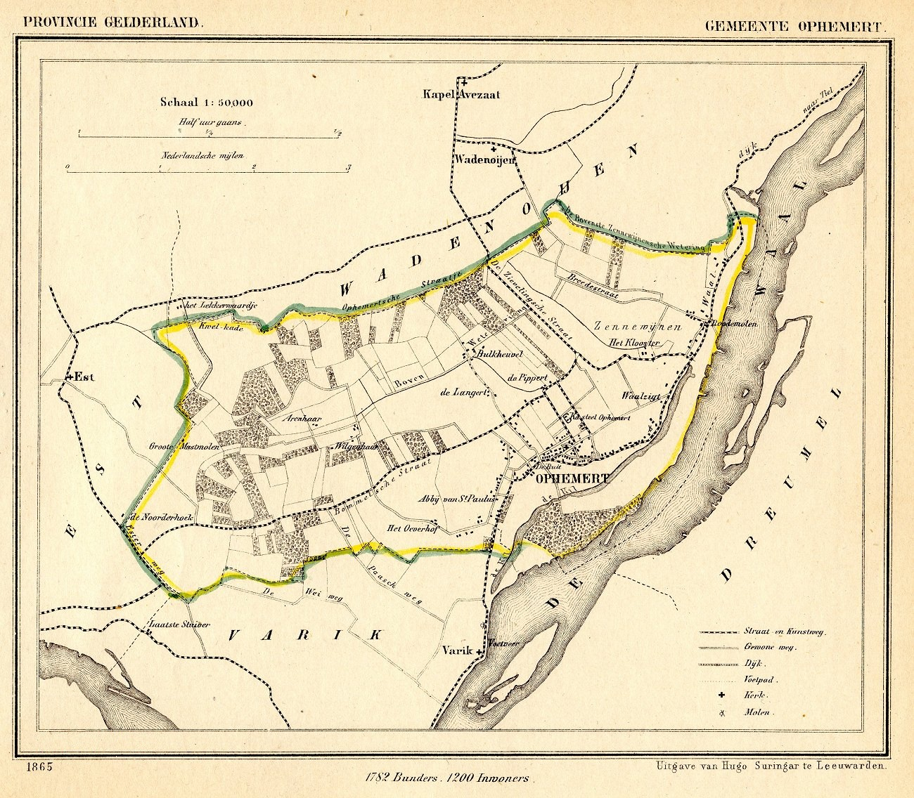 Map of 1865 of the former municipality of Ophemert (Province of Gelderland, Netherlands). In 1978 Ophemert became part of the municipality of Neerijnen.